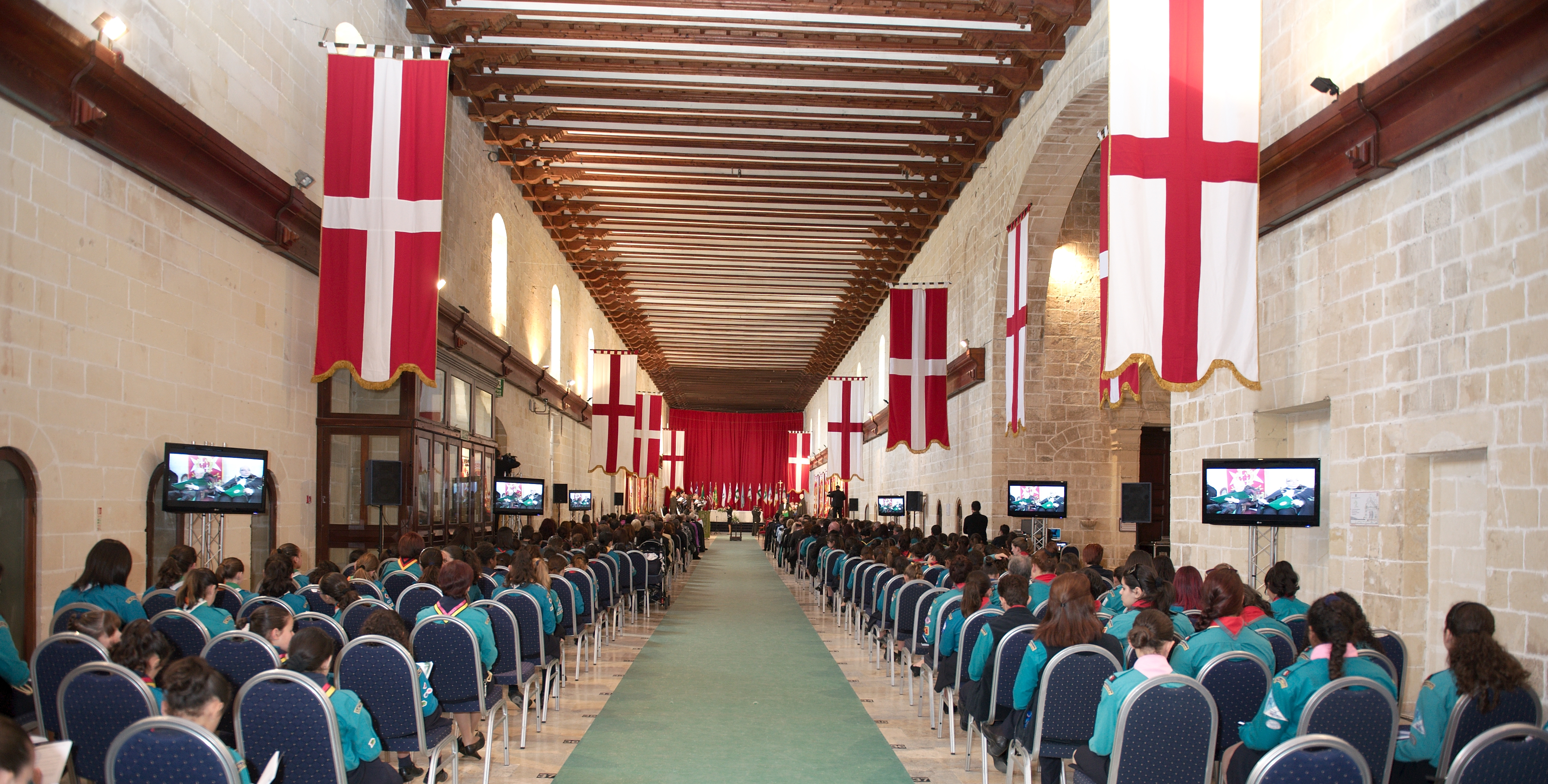 The First International Lazarite Symposium, held at the Sacra Infermeria, Valletta, Malta in 2012. The biggest ever Lazarite gathering world-wide, with over 800 delegates of the Hospitaller Order of Saint Lazarus of Jerusalem